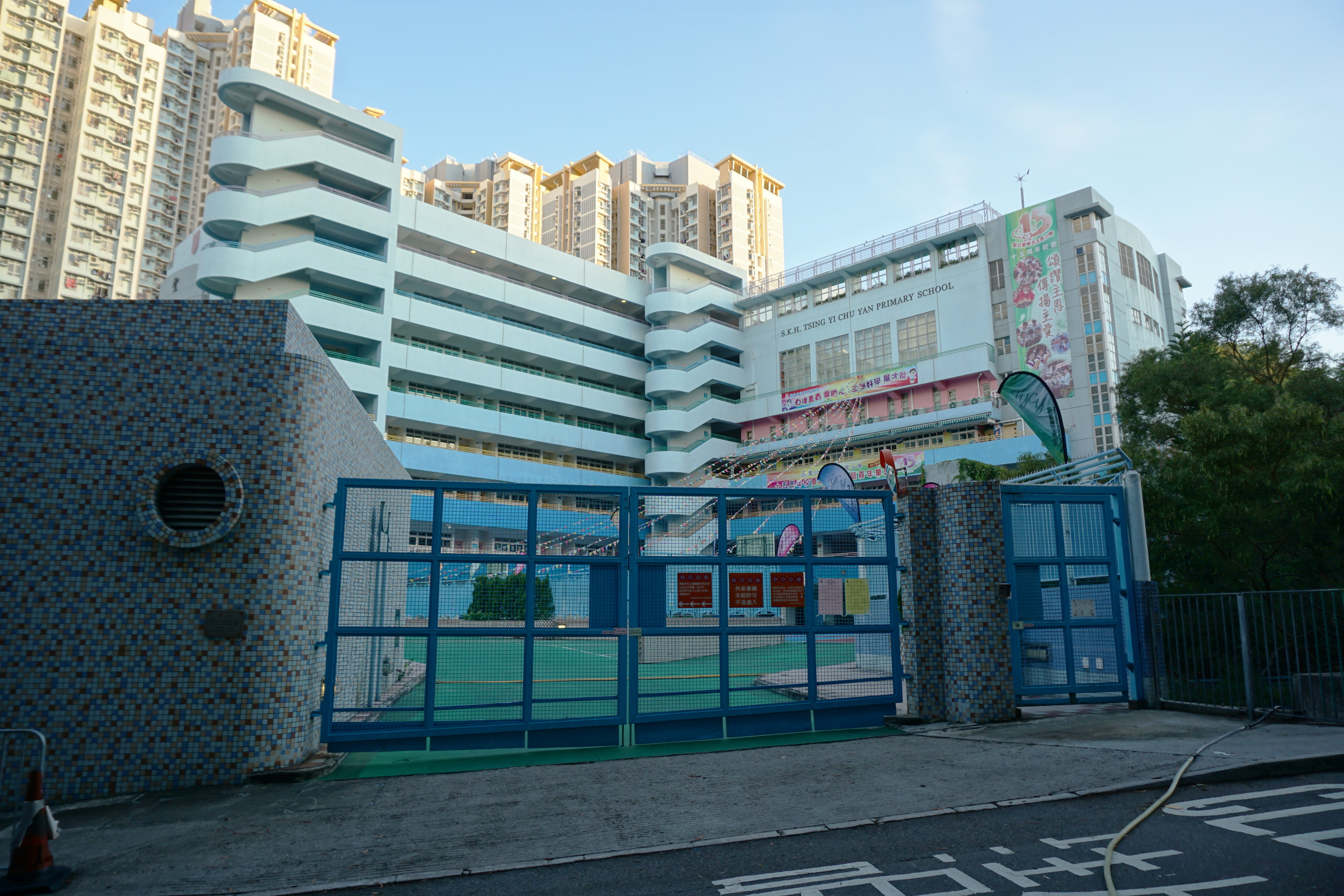 S.K.H. Tsing Yi Chu Yan Primary School in Tsing Yi, Hong Kong.